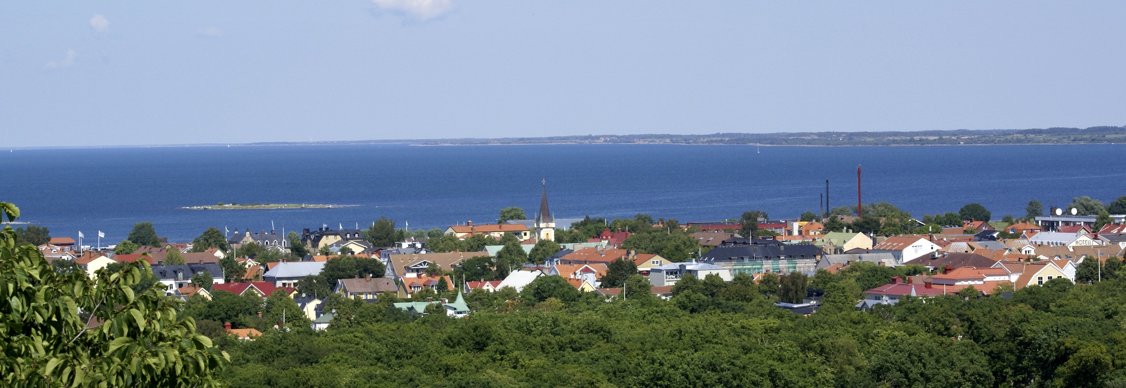 View over Borgholm from the Borgholms slott